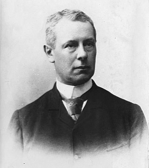 A.J. Roest, Mayor of the city of The Hague, the Netherlands 1887-1897